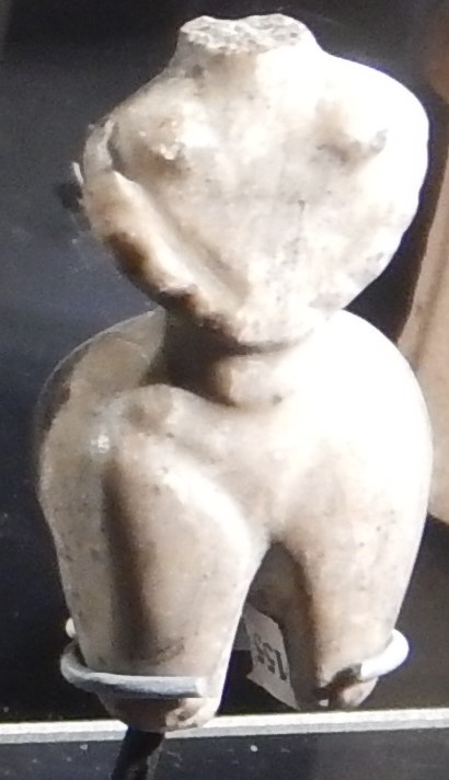 Anthropomorphic figurine, found in Tumba, Madzari, Skopje, dated 1st half 6 millennium BC